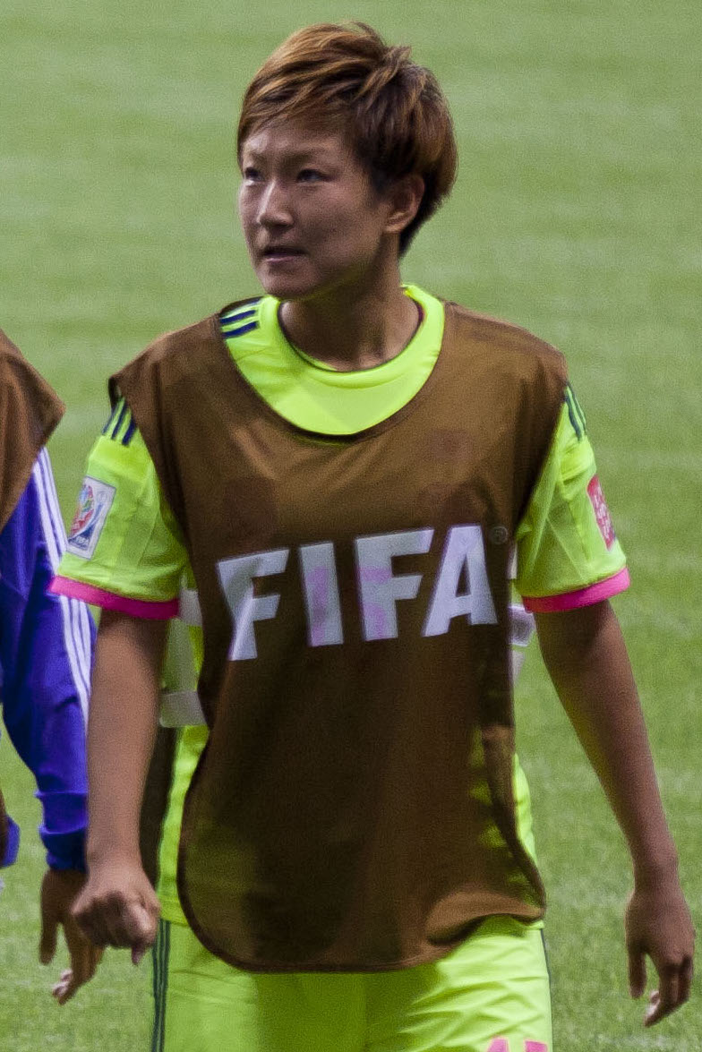 FIFA Women's World Cup Canada June 12th, 2015